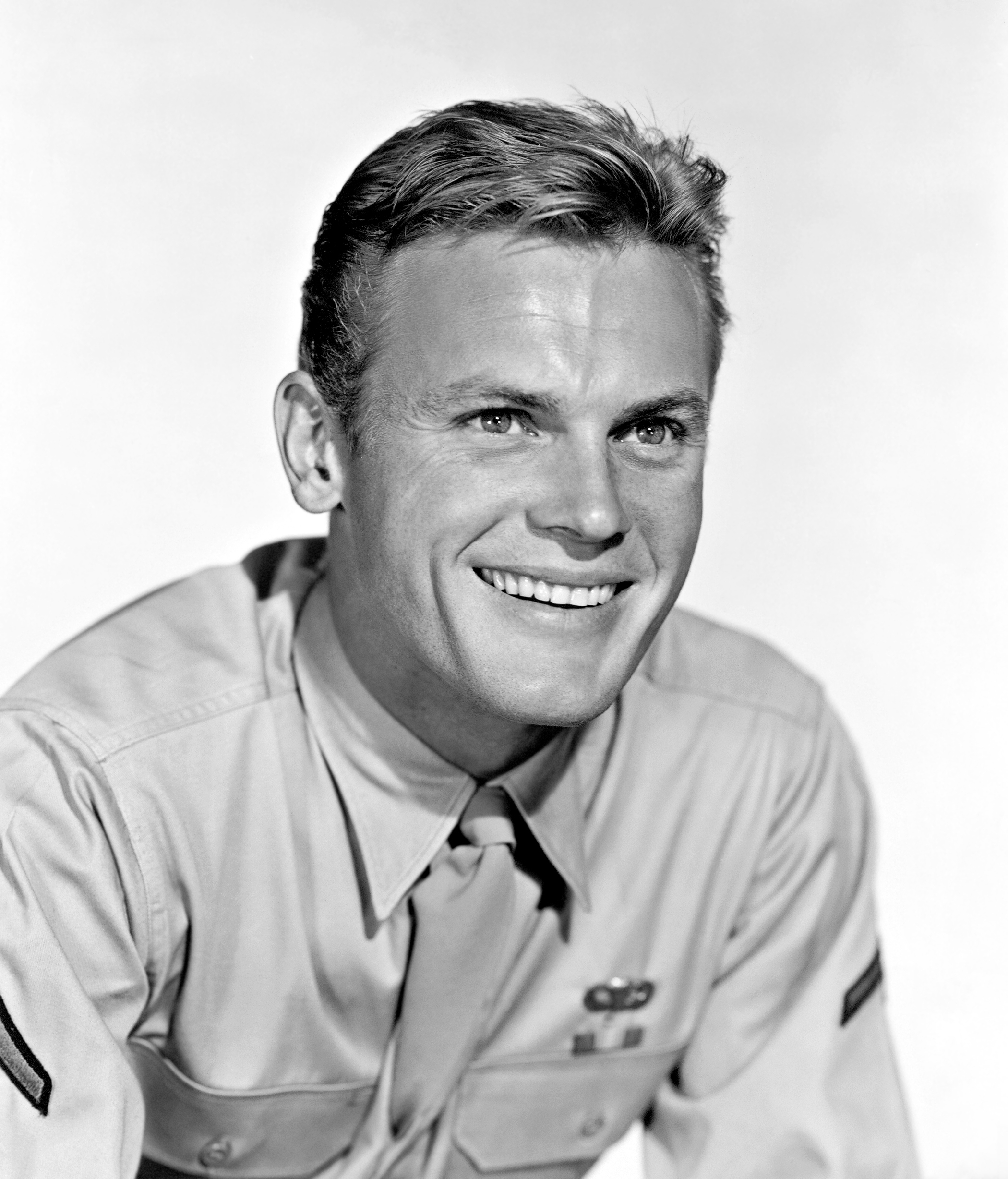 A promotional shot of Tab Hunter (1931 – 2018) in Battle Cry (1955)